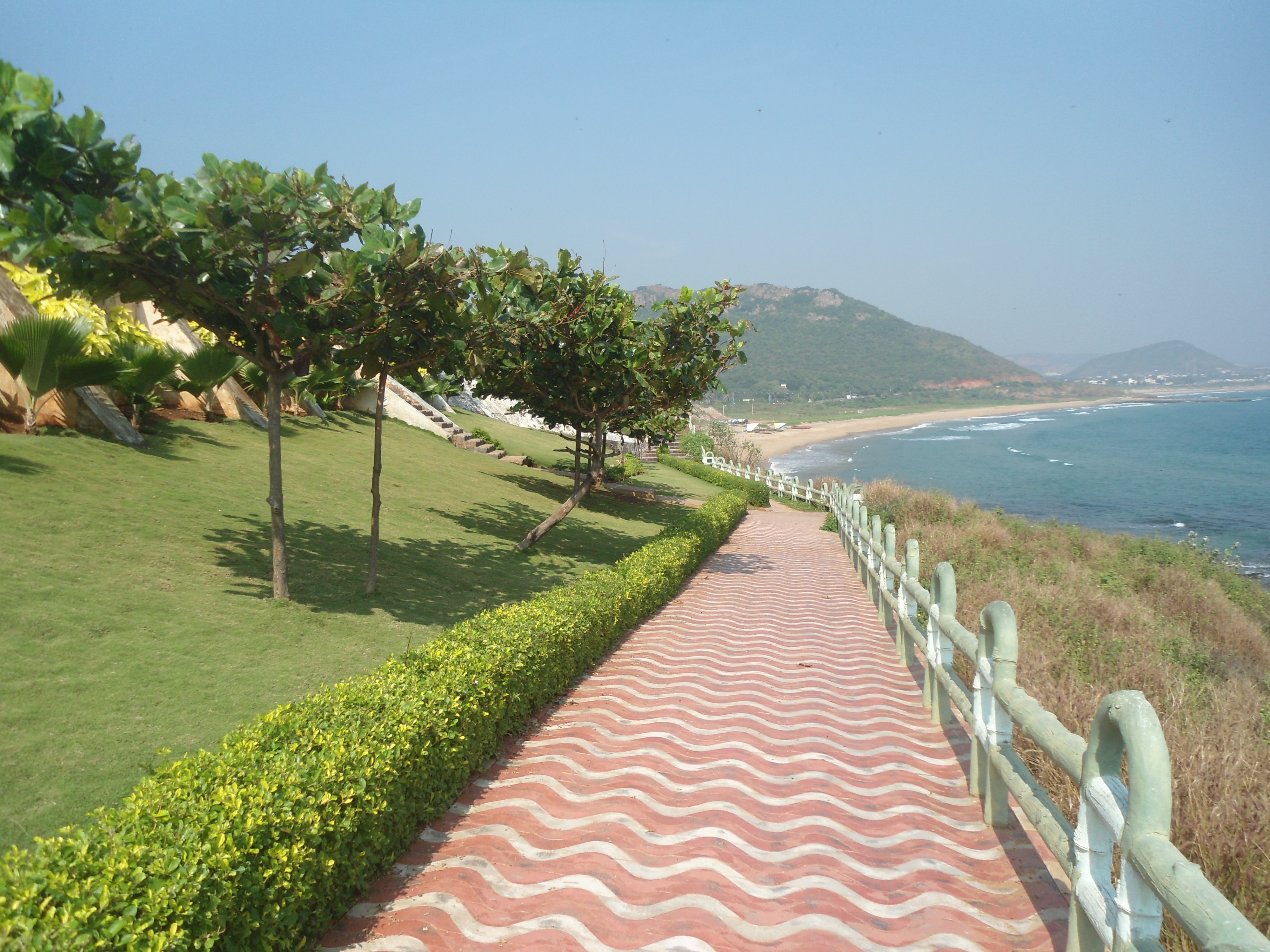 View at Tenneti Park in Visakhapatnam